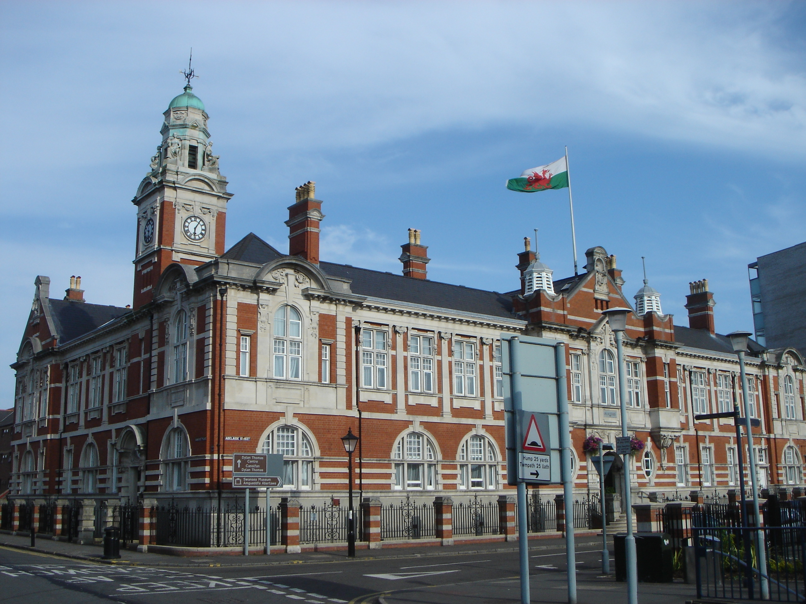 Swansea Harbour Trust Building, Swansea, UK (Architect Edwin Seward, 1902)